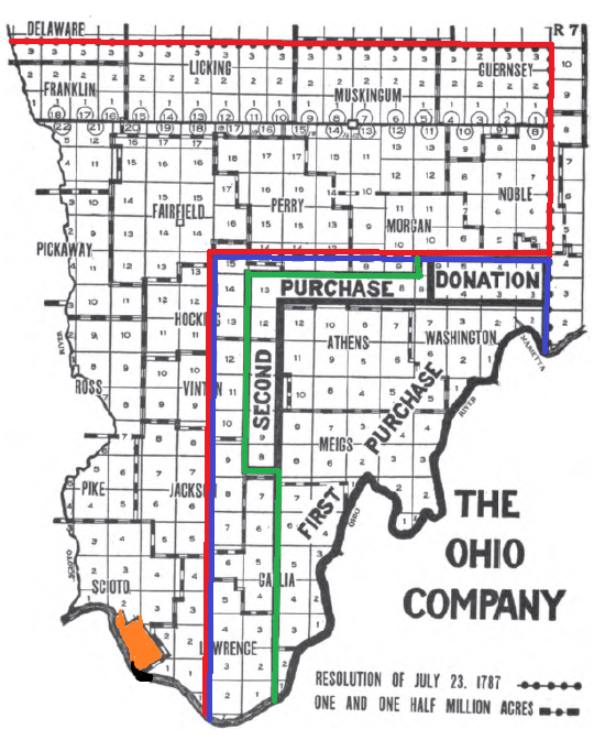 This map shows lands in Ohio which the Scioto Company (red) intended to buy, the lands the Ohio_Company_of_Associates (blue) intended to buy, the lands the Ohio Company did buy (green), and the French Grant (orange).